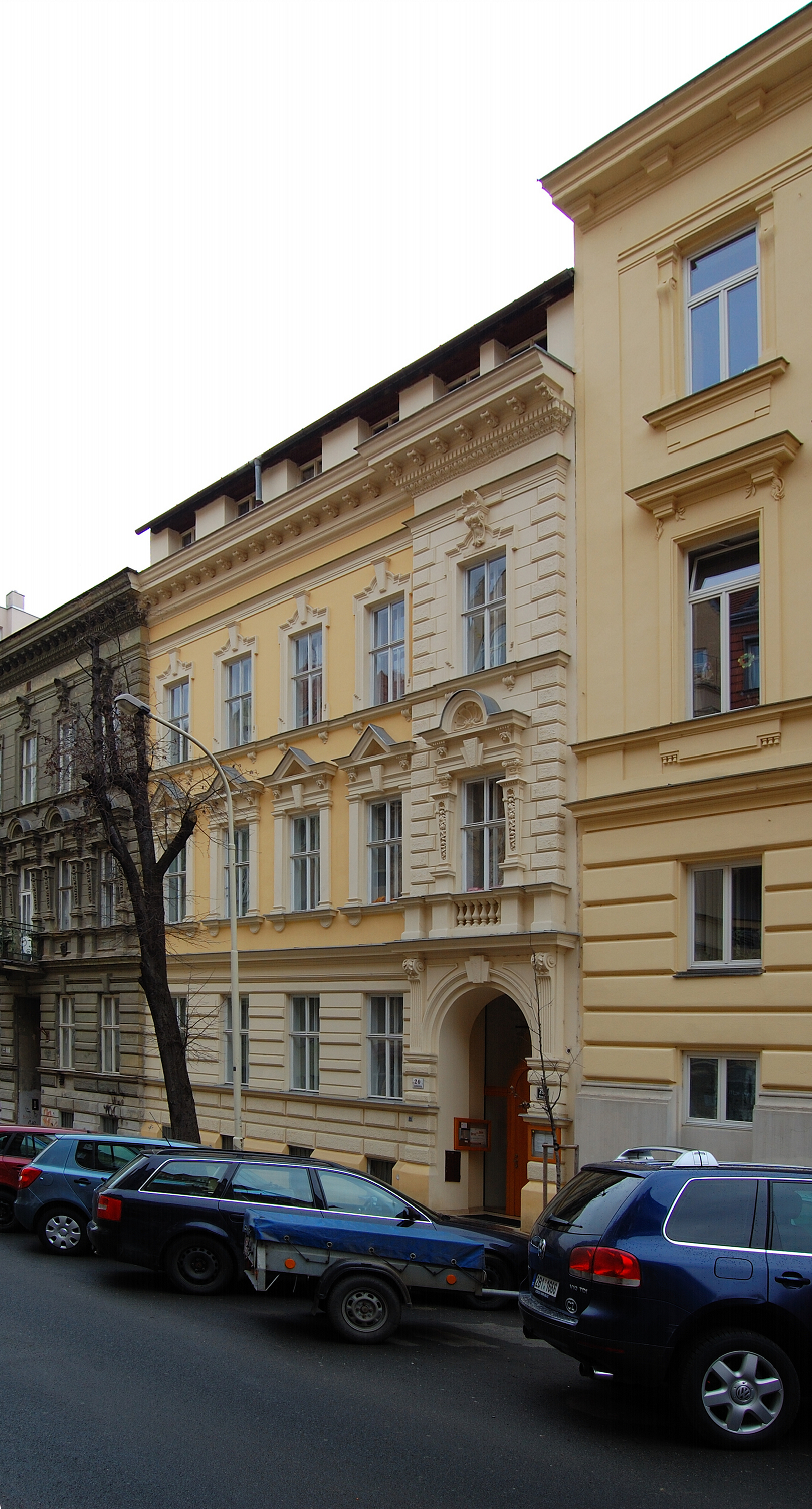 Baptist Union in Brno, Czech Republic.